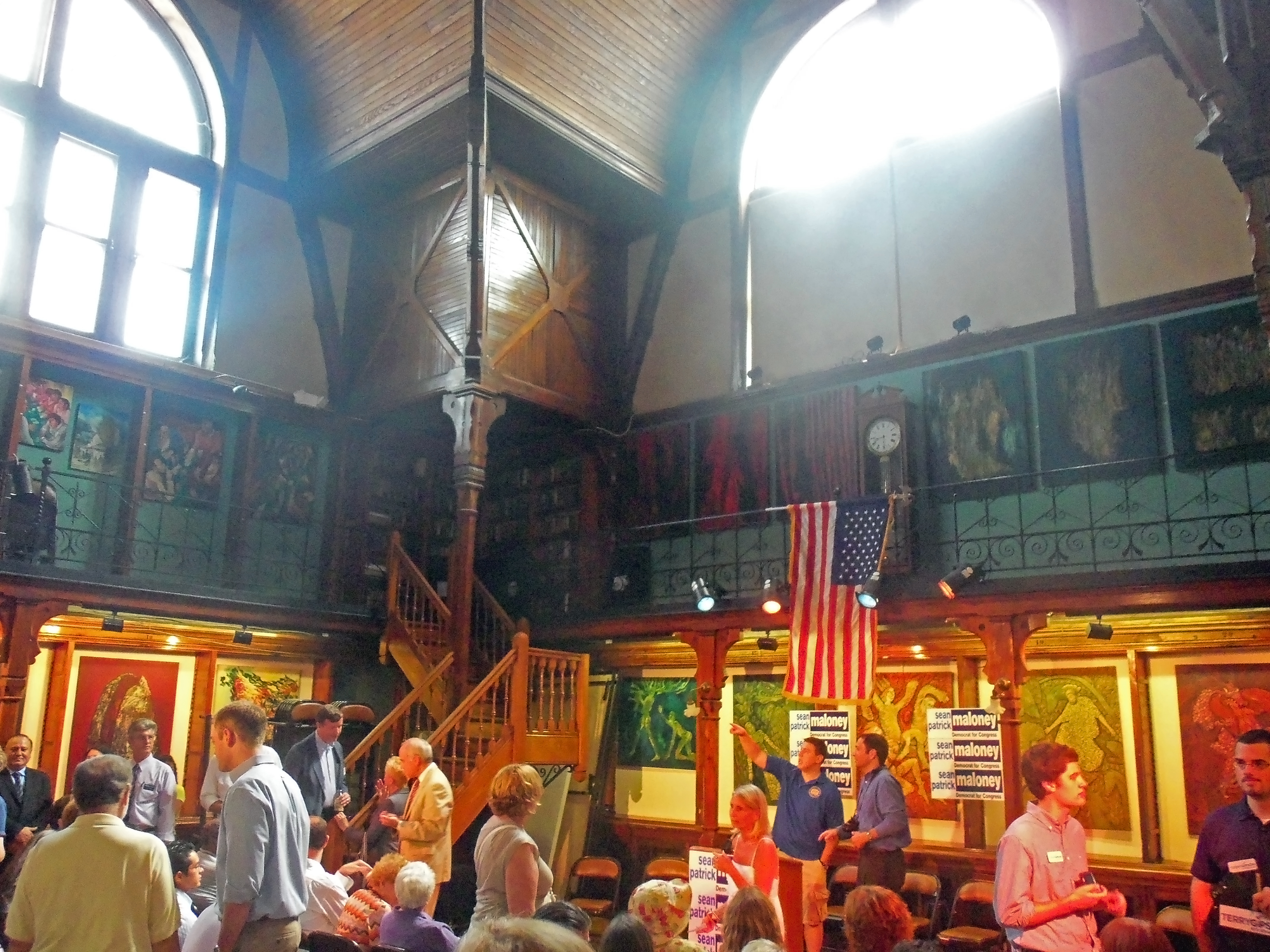 Interior of Howland Cultural Center, Beacon, NY, USA, prior to political rally